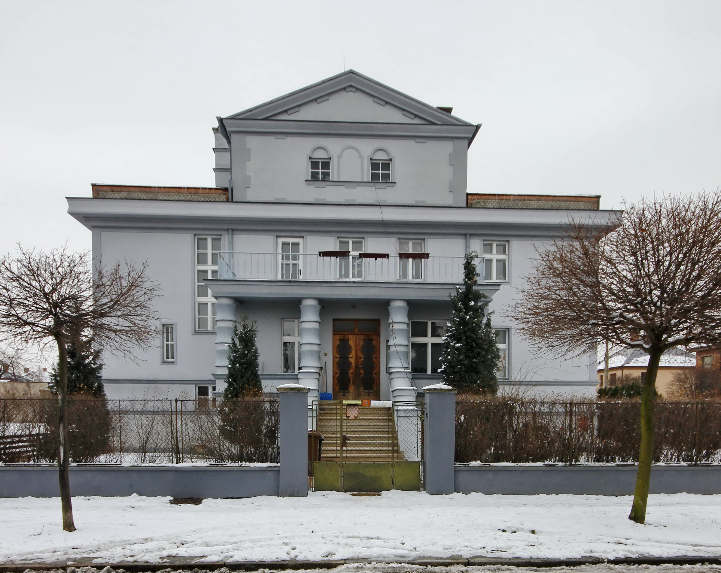 Oldřich Liska: Vila Václava Ulrycha, Pardubice, Bílé předměstí, Gebauerova ulice čp. 10 (1923–1924) Object location50° 02′ 23.24″ N, 15° 47′ 22.05″ E This photograph was taken with a DSLR from WMCZ's Camera grant.